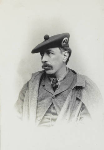 Portrait of Francis Buchanan White (1842-1894), Scottish entomologist and botanist